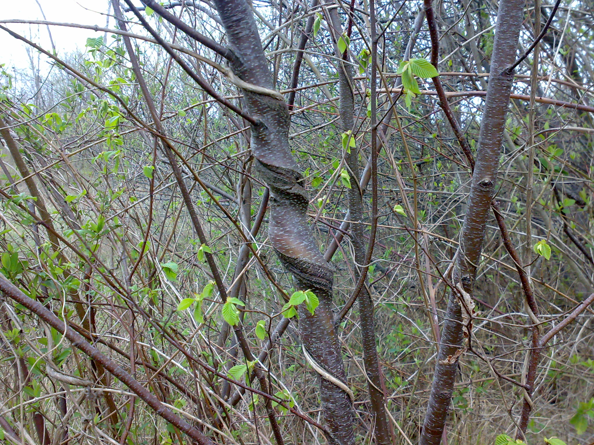 Ostrya carpinifolia in river Tagliamento at Rosa (San Vito al Tagliamento) - strange form